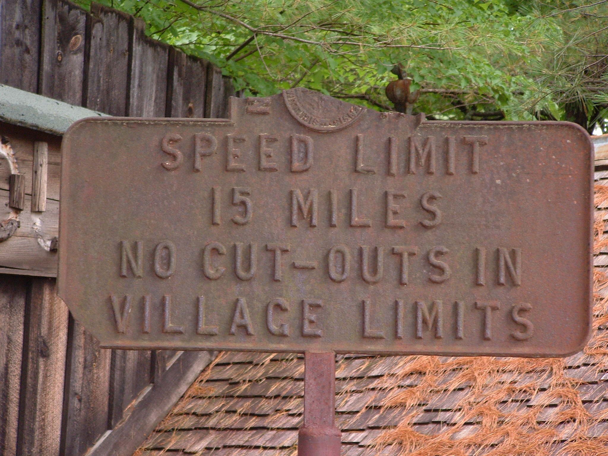 Antique New Hampshire speed limit sign. On display at Clark's Trading Post, Lincoln New Hampshire.